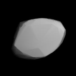 3D convex shape model of 1743 Schmidt, computed using light curve inversion techniques. J. Hanuš, J. Ďurech, M. Brož, B. D. Warner (June 2011). "A study of asteroid pole-latitude distribution based on an extended set of shape models derived by the lightcurve inversion method". Astronomy and Astrophysics 530: A134. ISSN 0004-6361. arXiv